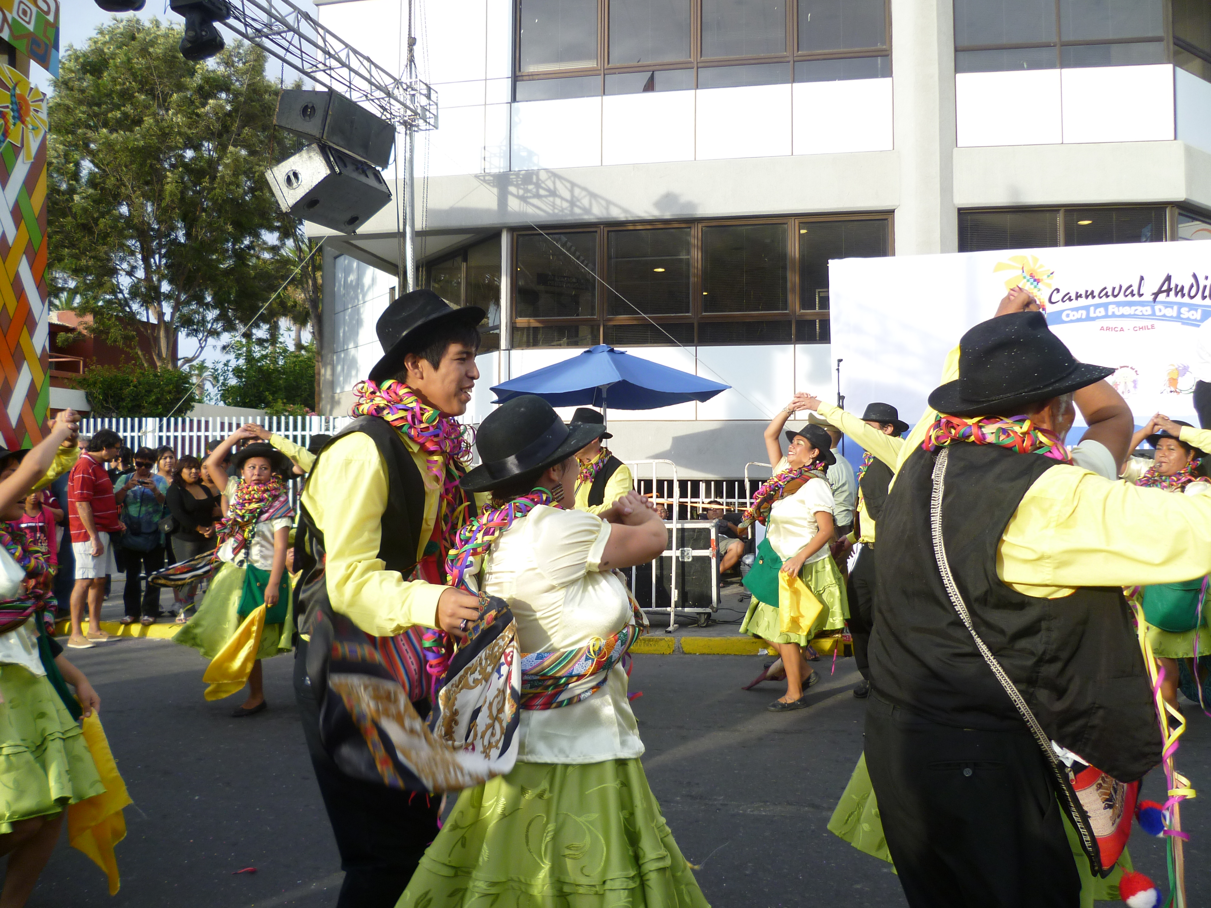 Carnaval Andino con la Fuerza del Sol